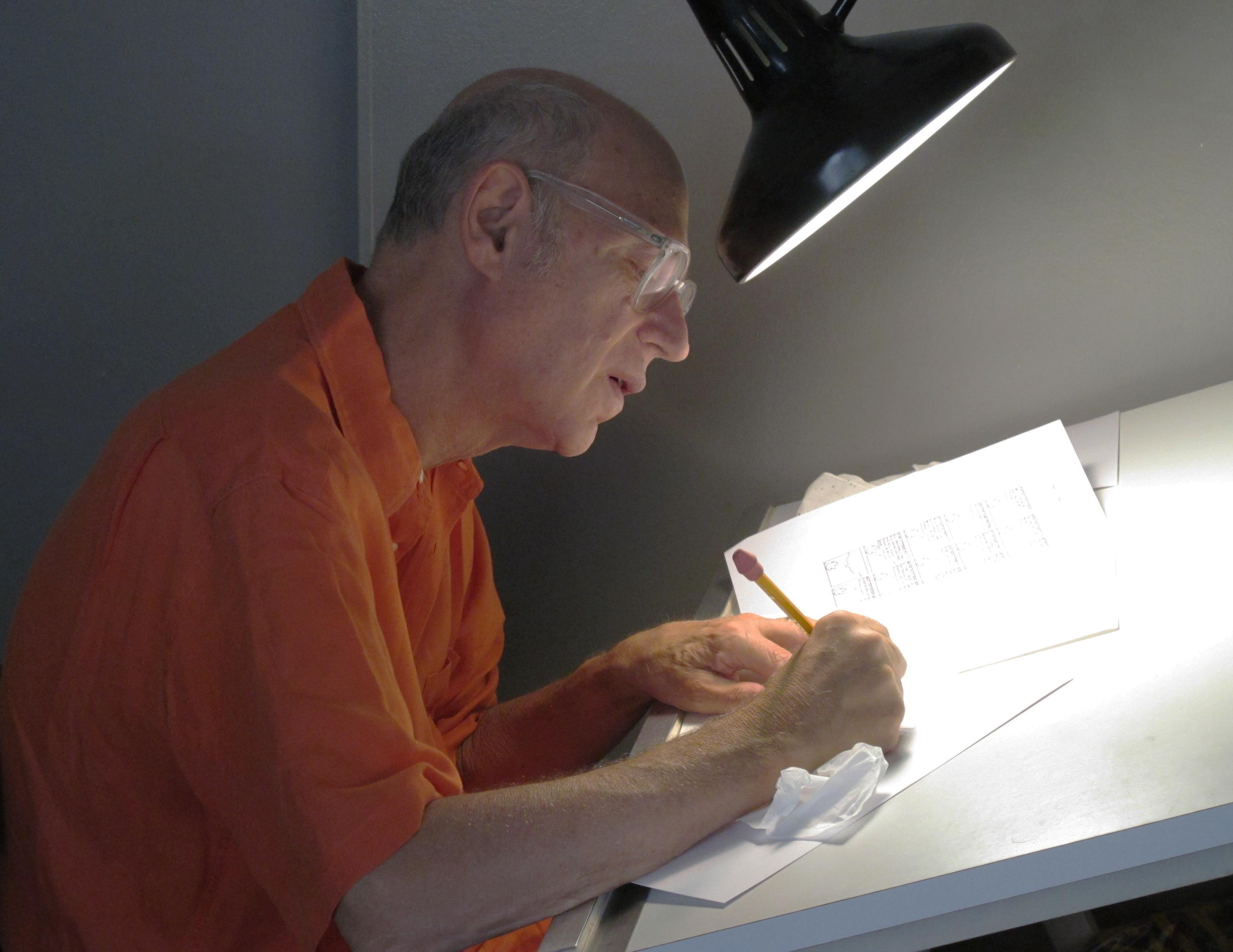 The American cartoonist and humor writer Ed Subitzky at his drawing table working on a comic strip in 2012, NYC